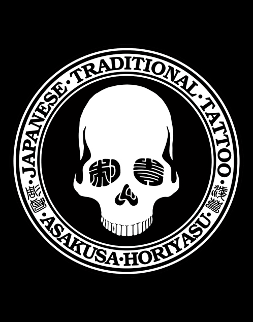 Asakusa Horiyasu's official Logo